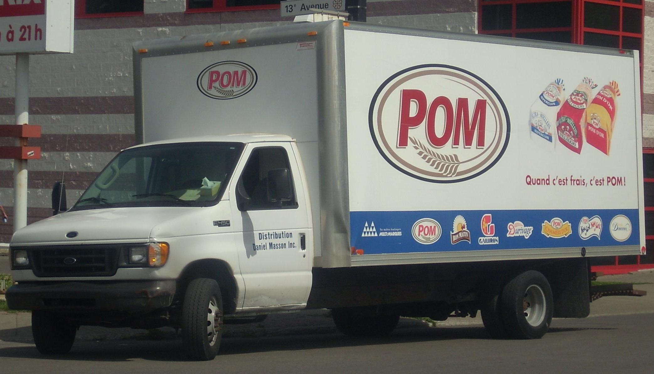 2003-2005 Ford E-Series photographed in Montreal, Quebec, Canada.